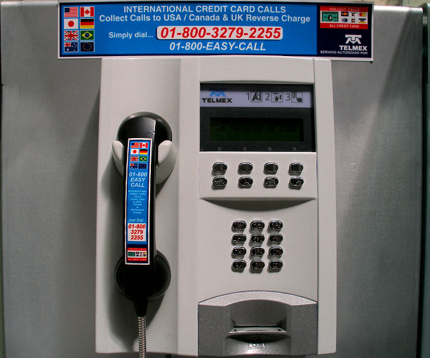 A Telmex pay phone in the Plaza Caracol shopping center on Boulevard Francisco Medina Ascensio in the city of Puerto Vallarta, Jalisco, Mexico.